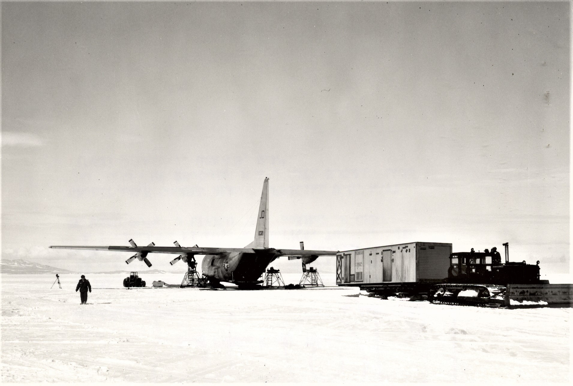 Plateau Station is an inactive American research and Queen Maud Land traverse support base on the central Antarctic Plateau